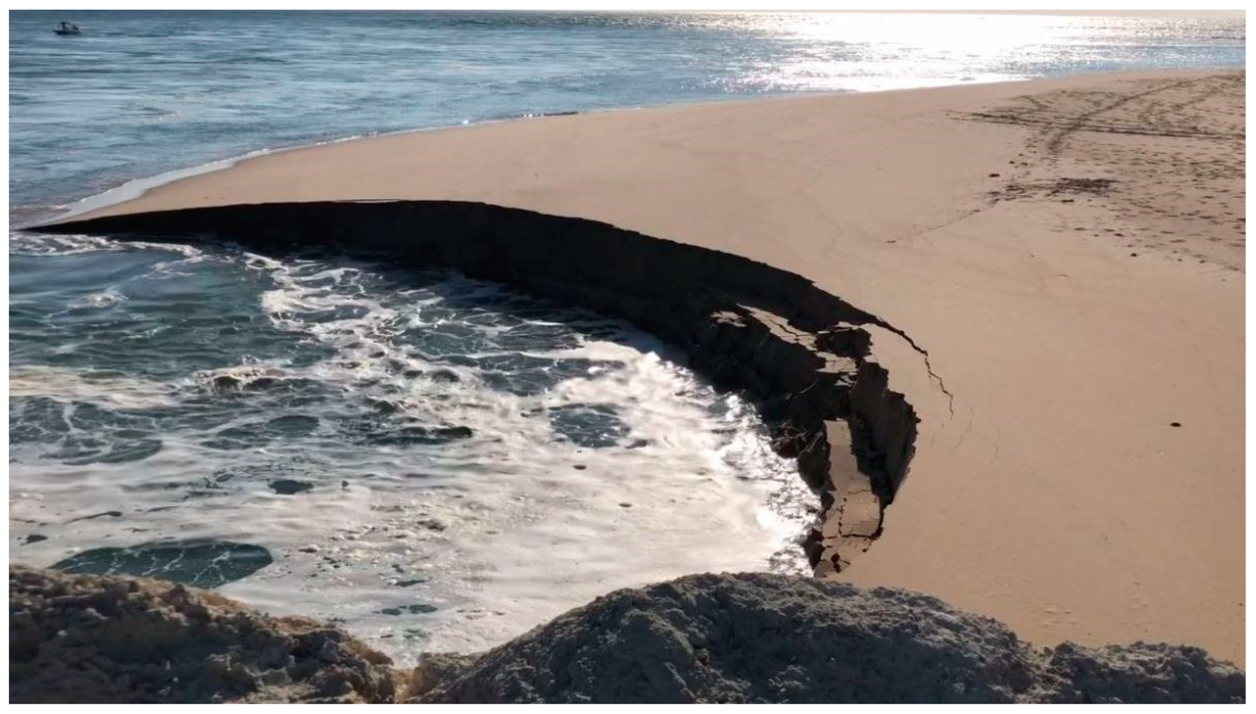 Active flow slide or RBF event at Cap Ferret, 8 February 2018. For safety, the beach was closed for bathers. Photo: Denis Salle, France 3 Nouvelle-Aquitaine.